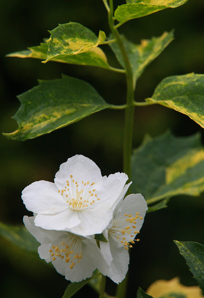 Philadelphus 'Innocente'. Russia. Vladimir Oblast